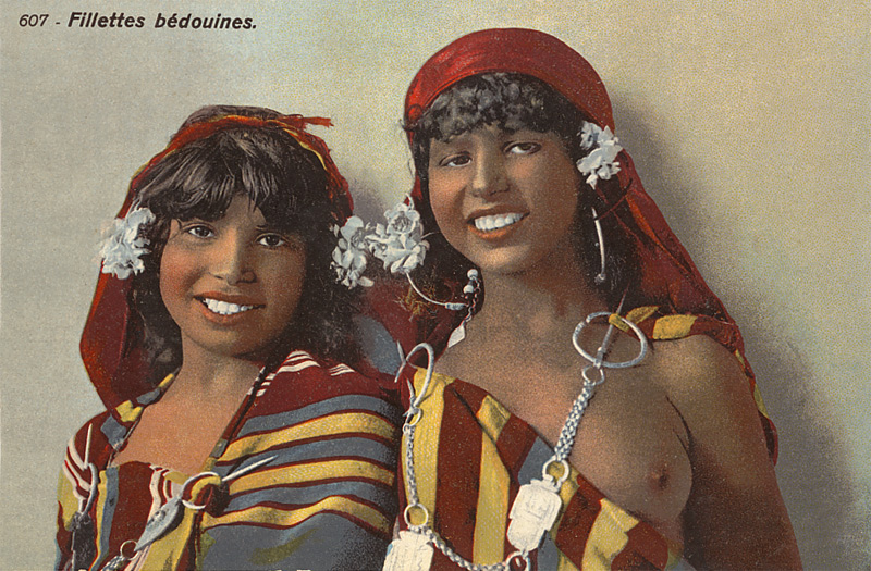 607 - Little Bedouin girls.